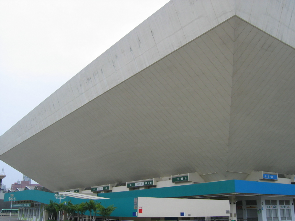 Hong Kong Coliseum